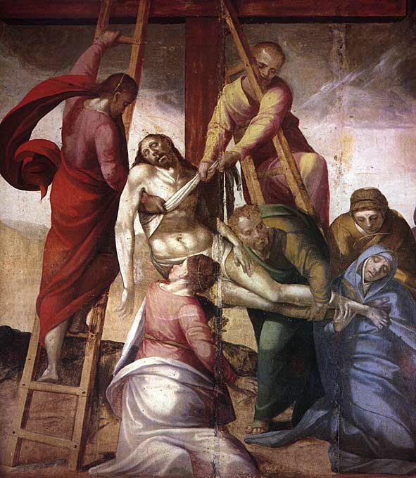 The Deposition